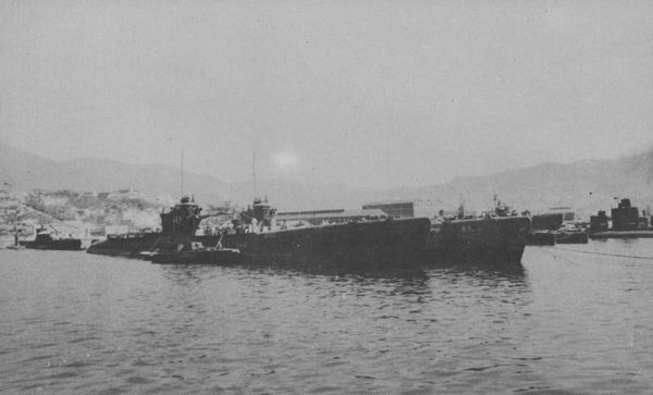 HIJMS I-53 and I-58 (left to right)